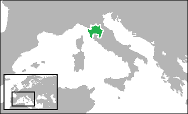 Locator map showing the Republic of Florence in 1494. (Partially based on map: 1494 v2.png.)